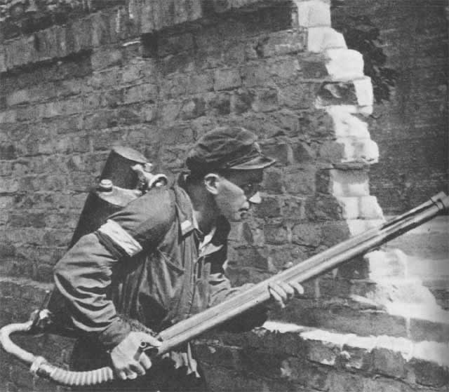 Warsaw Uprising: Polish fighter in a uniform of a Warsaw tramway driver, from Ruczaj Battalion carries a flamethrower before fights for "Mała PASTa" building. The flamethrower mark K was produced for use by the Polish Home Army.